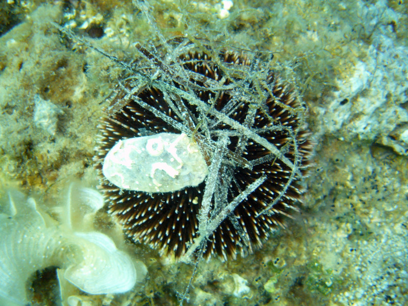 Sphaerechinus granularis, Croatia